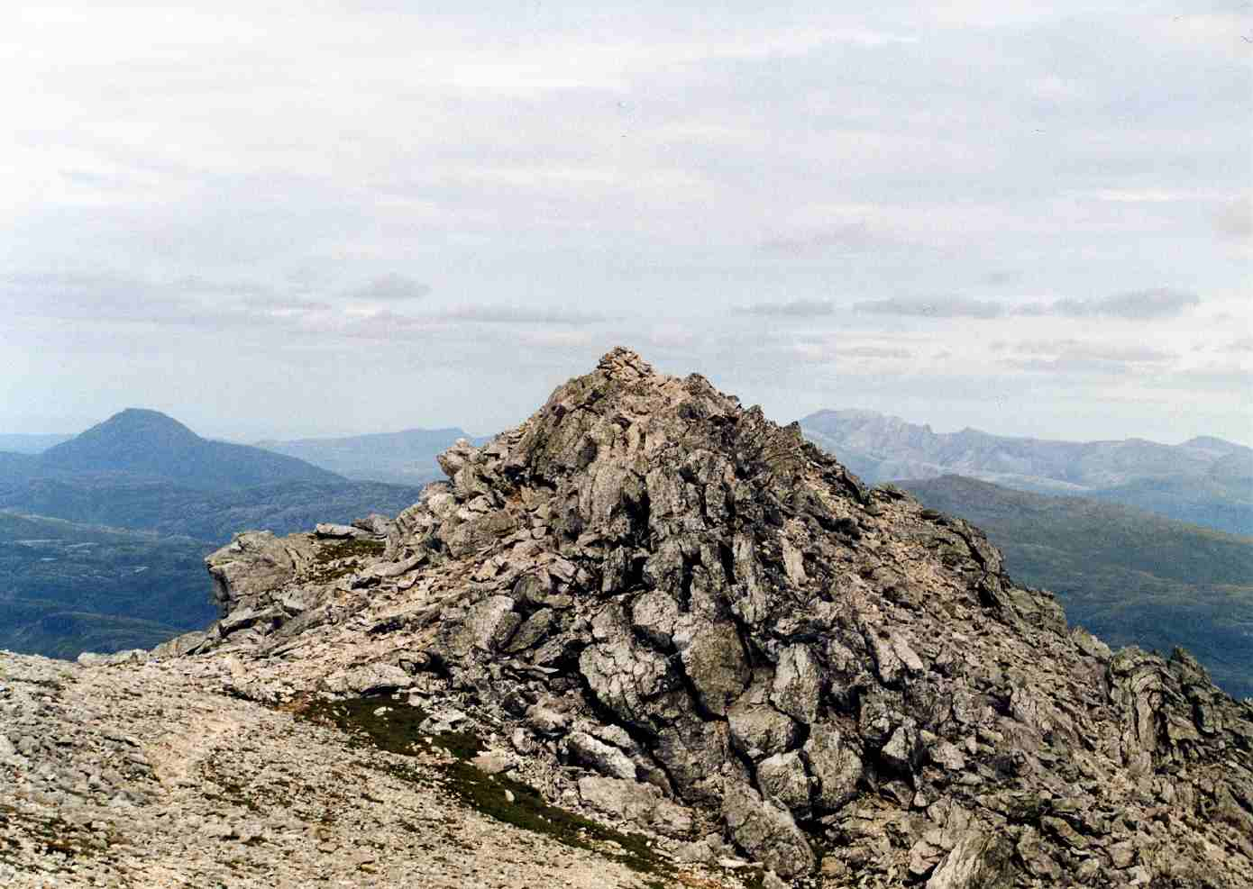 Personal picture taken by Mick Knapton